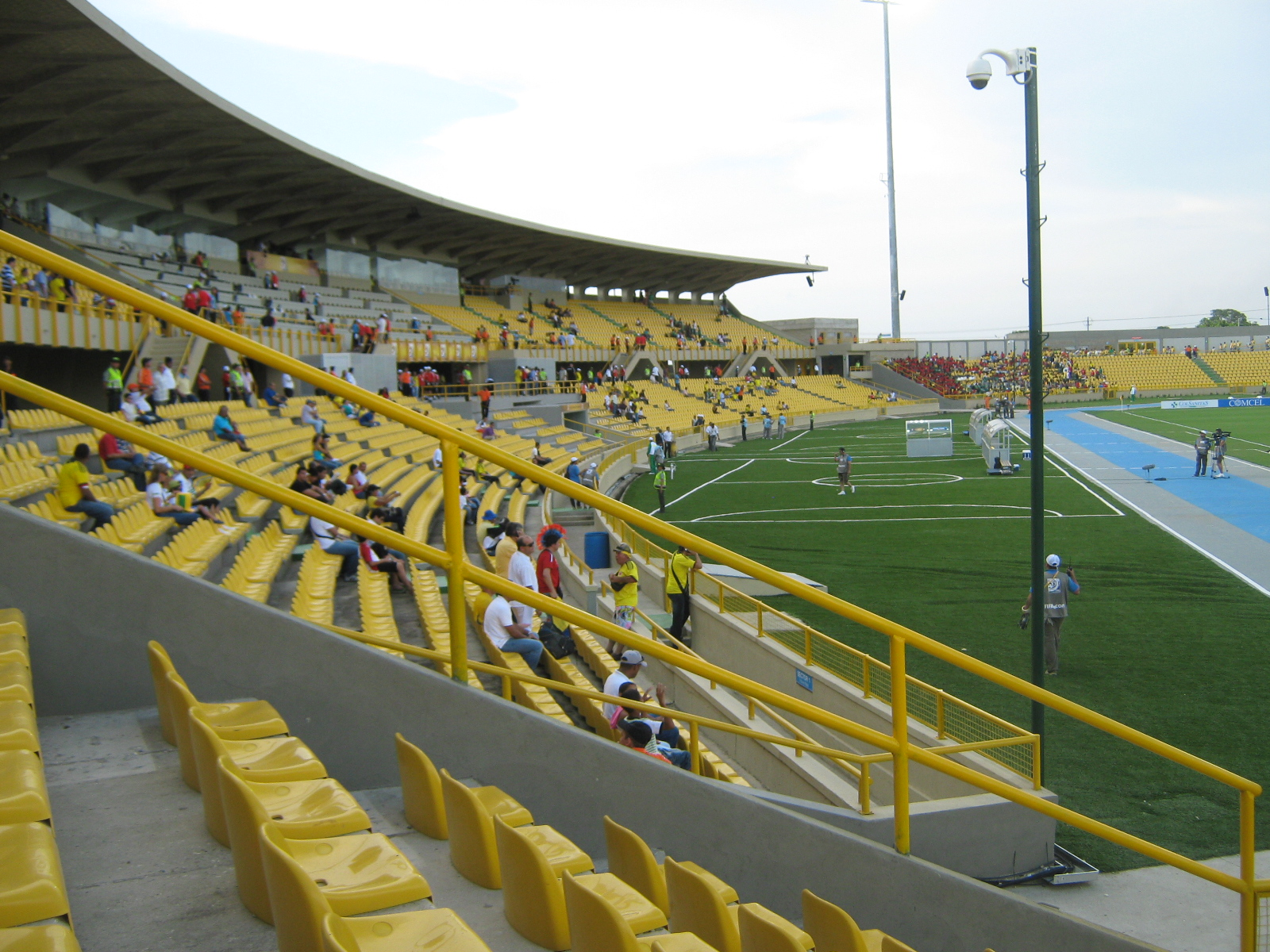 West stand at Jaime Morón Stadium